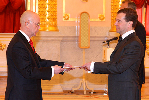 THE KREMLIN, MOSCOW. Presentation ceremony of foreign ambassadors’ letters of credentials. Ambassador of the Republic of Lithuania Antanas Vinkus presents his letter of credentials to the President.